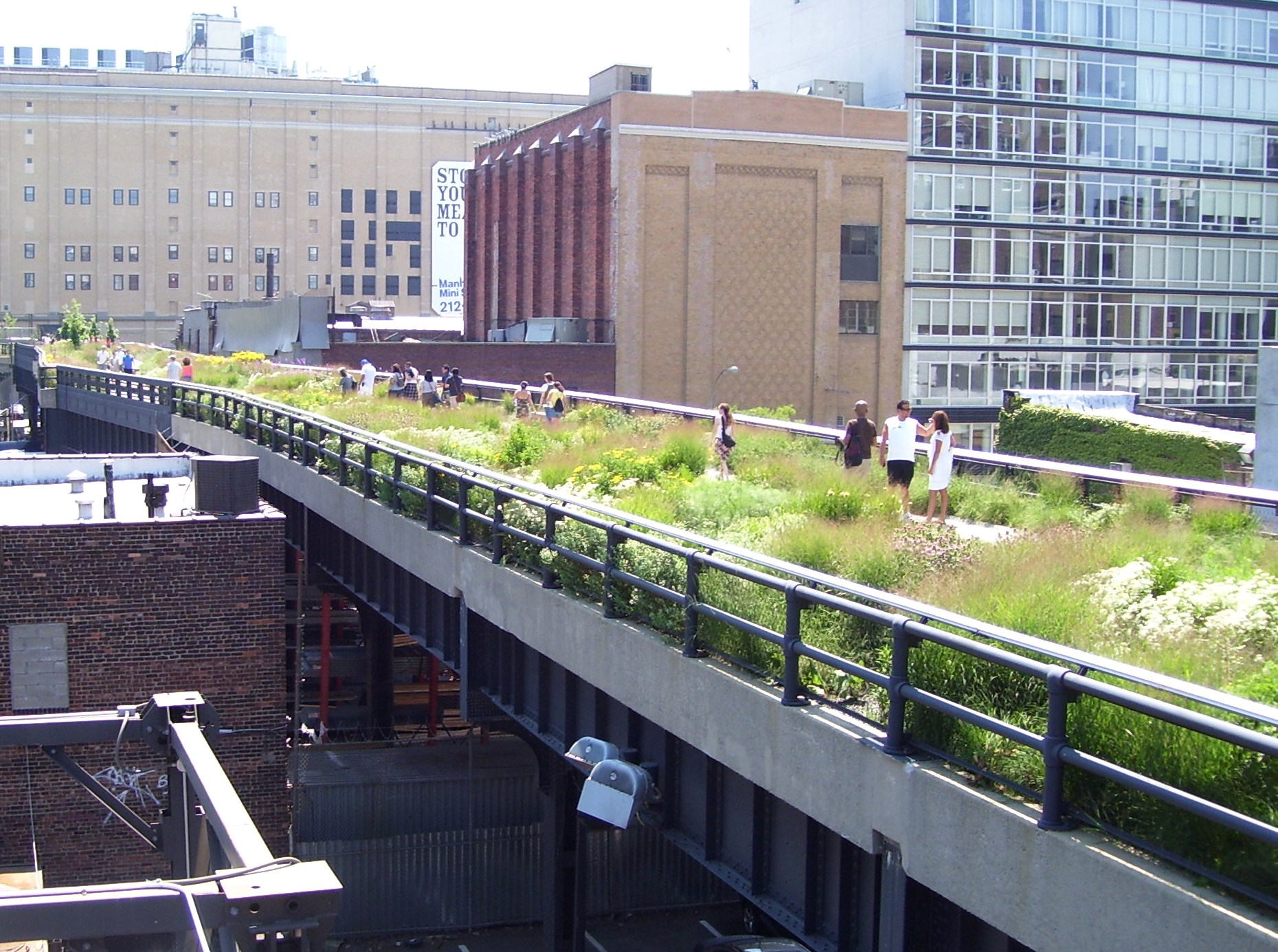 The High Line in Manhattan, New York City at West 20th Street, looking downtown (south)